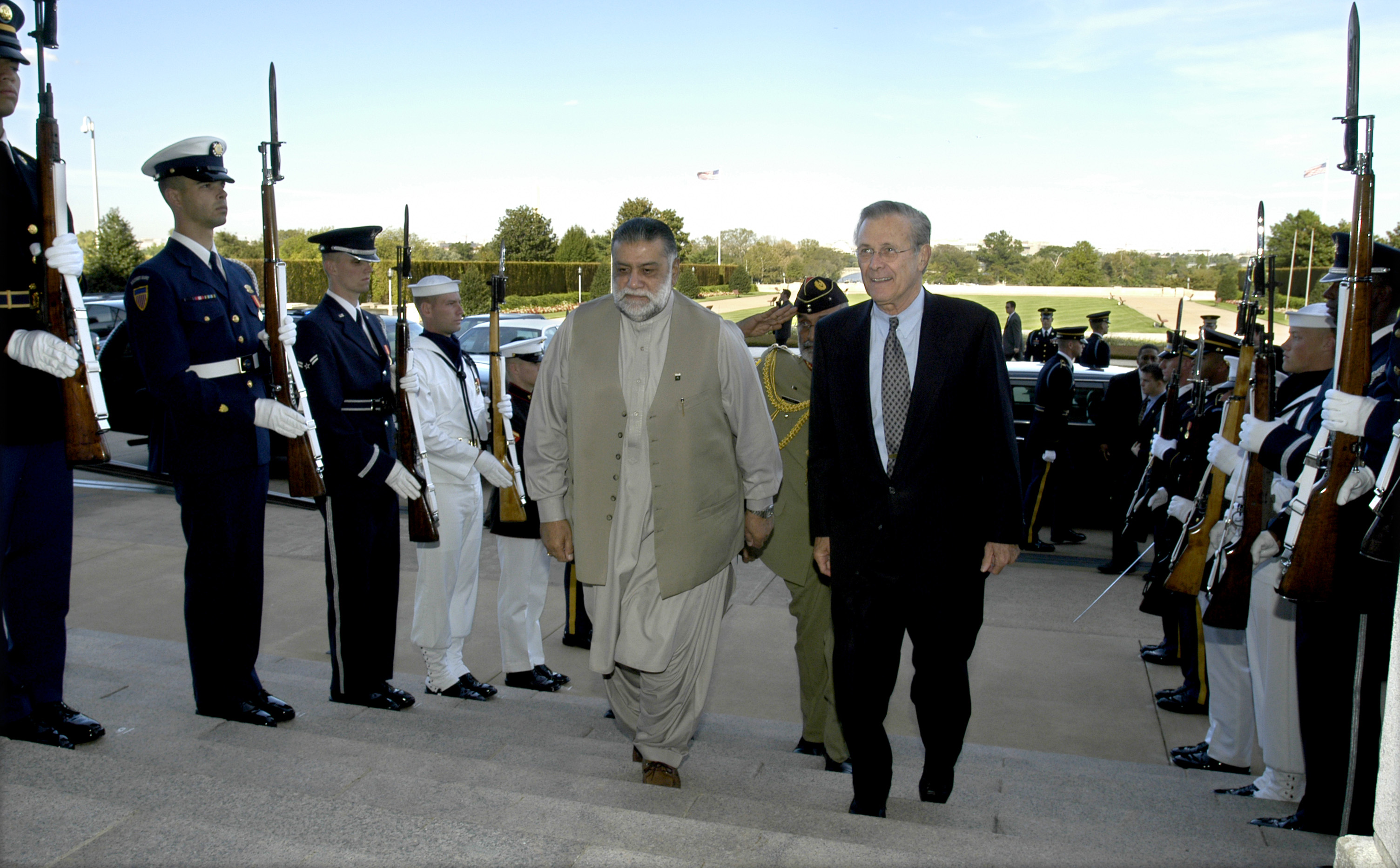 Secretary of Defense Donald H. Rumsfeld escorts Pakistani Prime Minister Mir Zafarullah Khan Jamali into the Pentagon on Oct. 3, 2003. Rumsfeld and the Prime Minister will meet to discuss a broad range of bilateral security issues. DoD photo by R. D. Ward. (Released